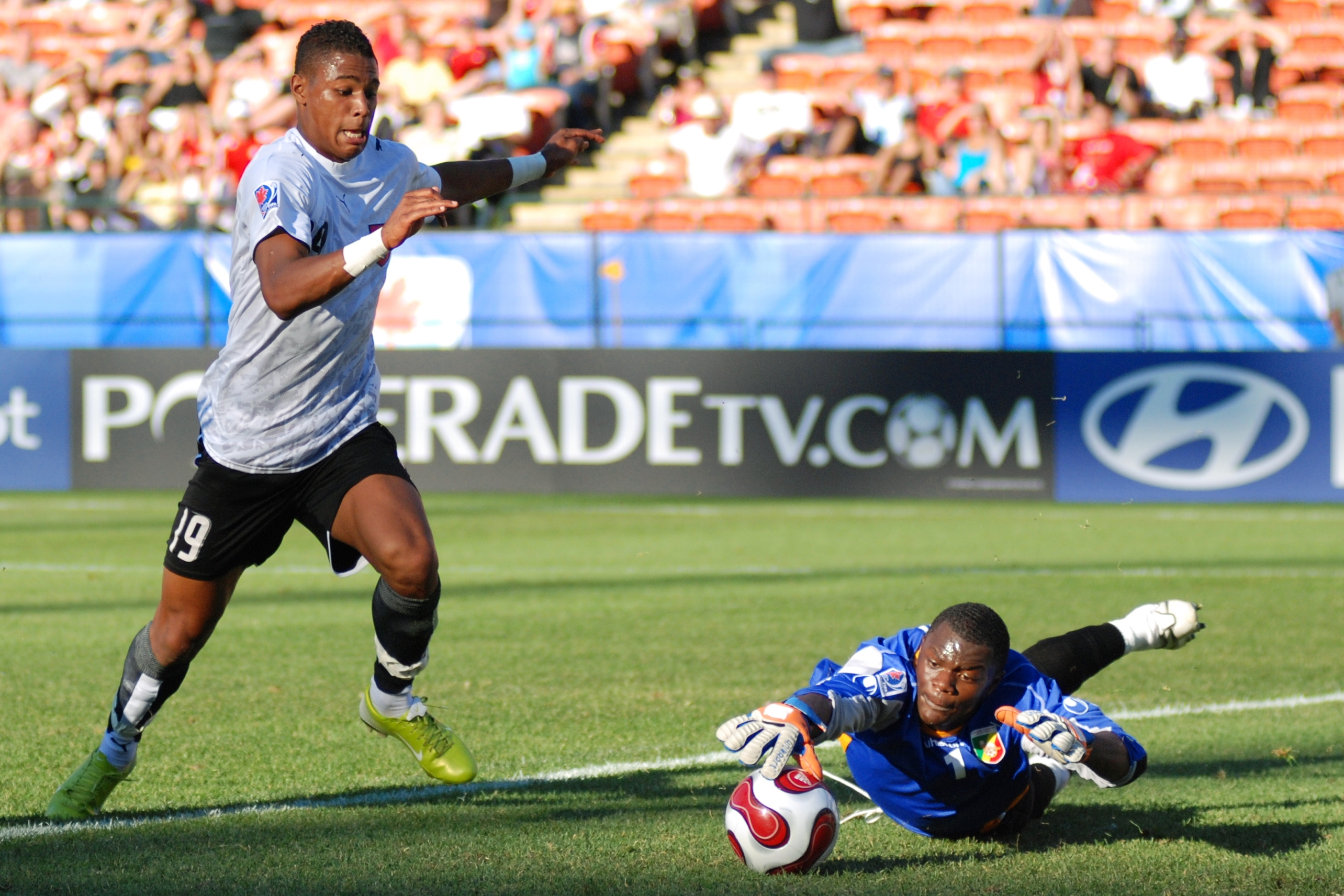 Austrian Forward Rubin Okotie tries to score on Congo Goalkeeper Destin Onka at the 2007 FIFA U-20 World Cup. Onka makes the save. Shot at Commonwealth Stadium, Edmonton, Alberta, Canada.